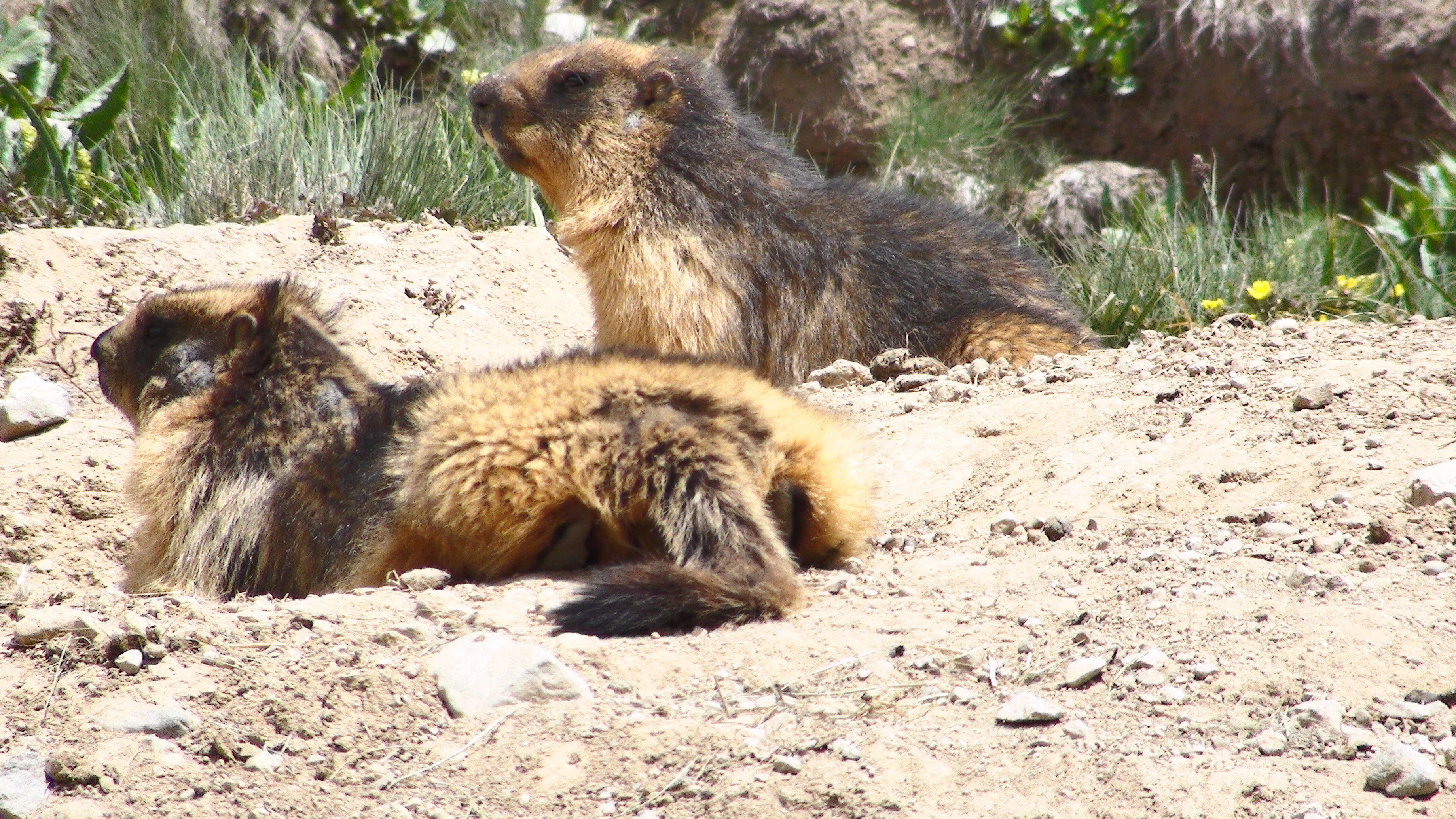 A pair of Long-tailed Marmot, Golden Marmot or Red Marmot (Marmota caudata) in Central Asia at the Deosai Plains, in Deosai National Park, northern Pakistan.